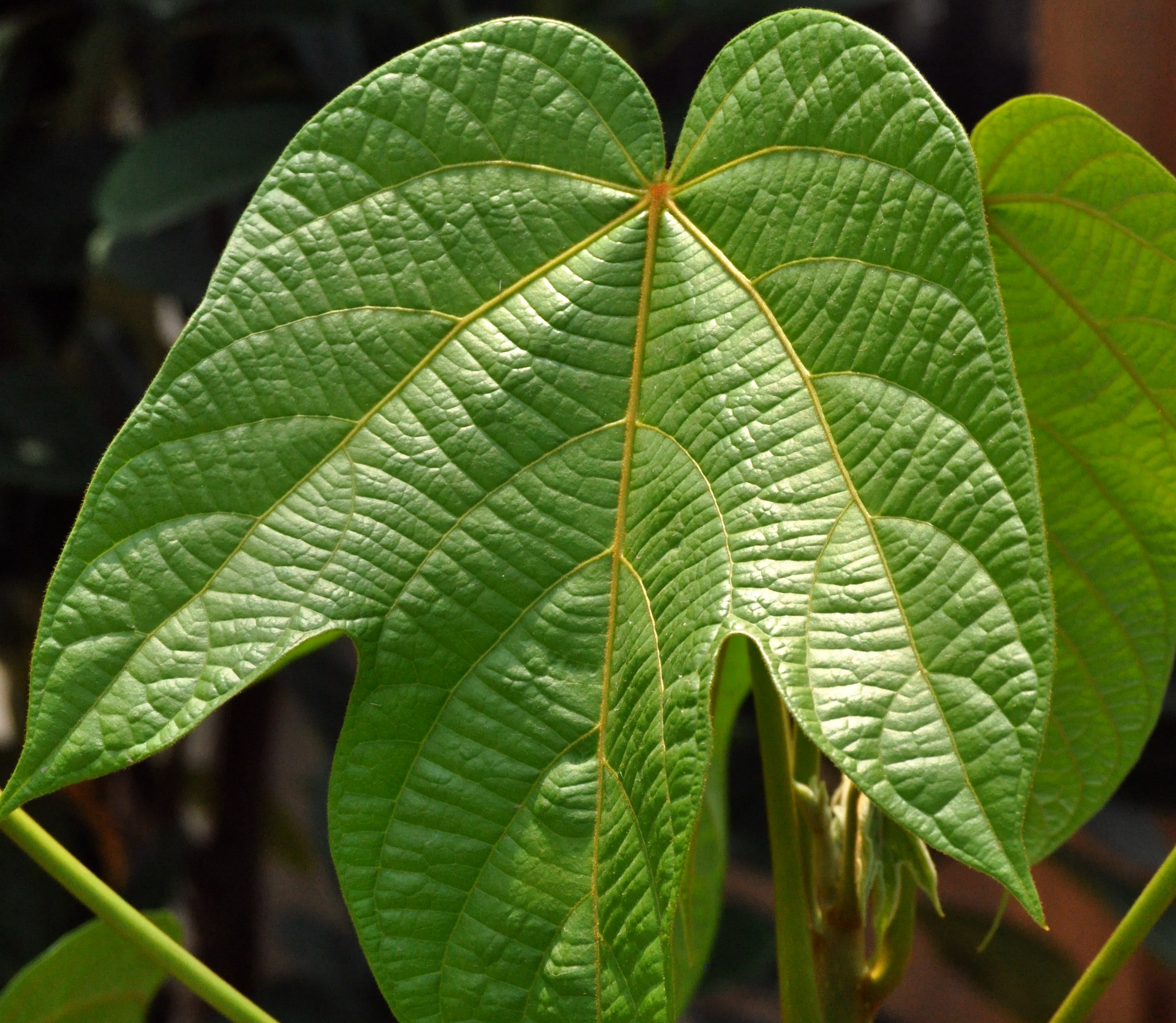 Leaves of Pangium edule; architecture type: perfect-, reticulated-, basal-actinodromous. Bogor, West Java, Indonesia.